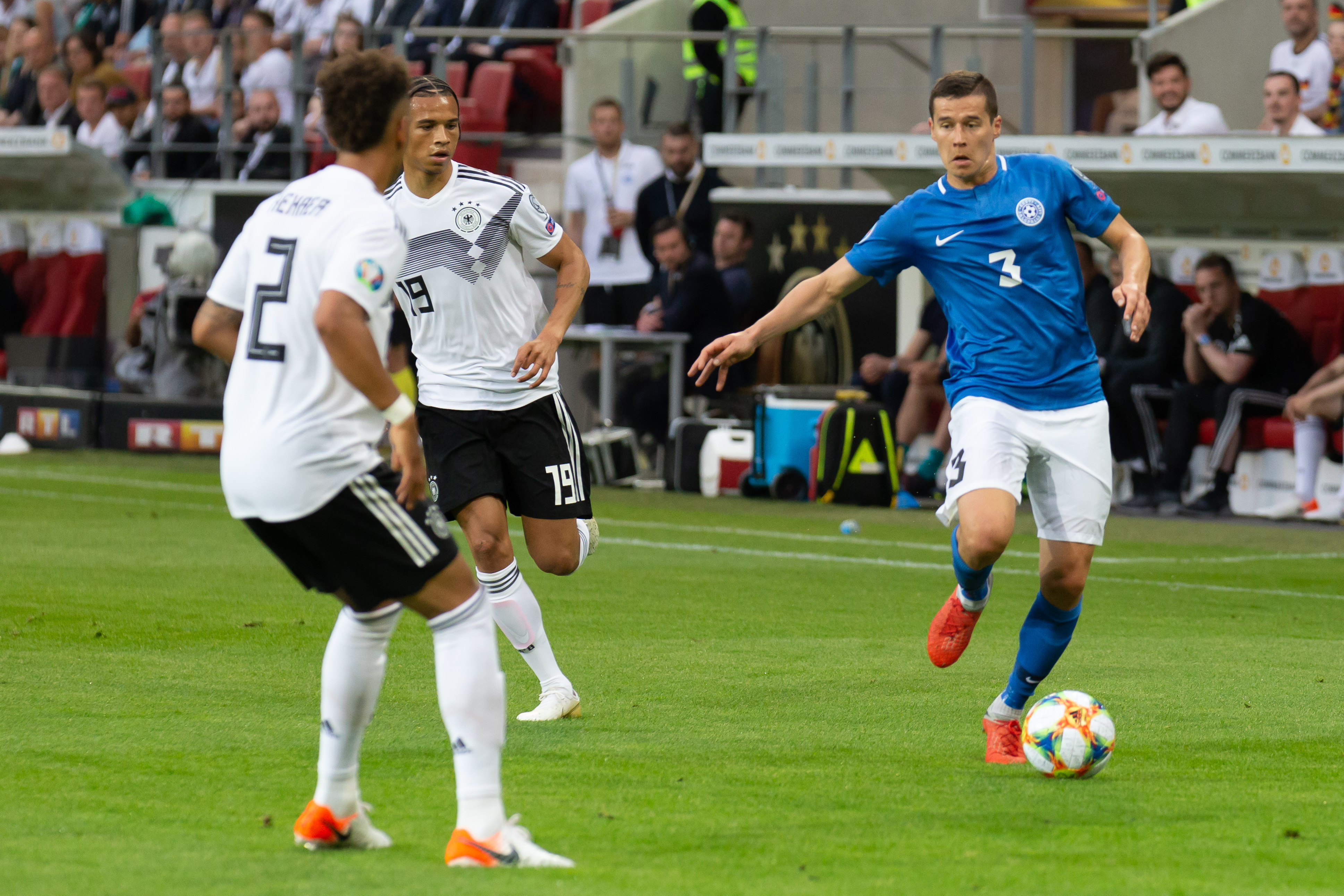 UEFA Euro 2020 qualifier Germany-Estonia